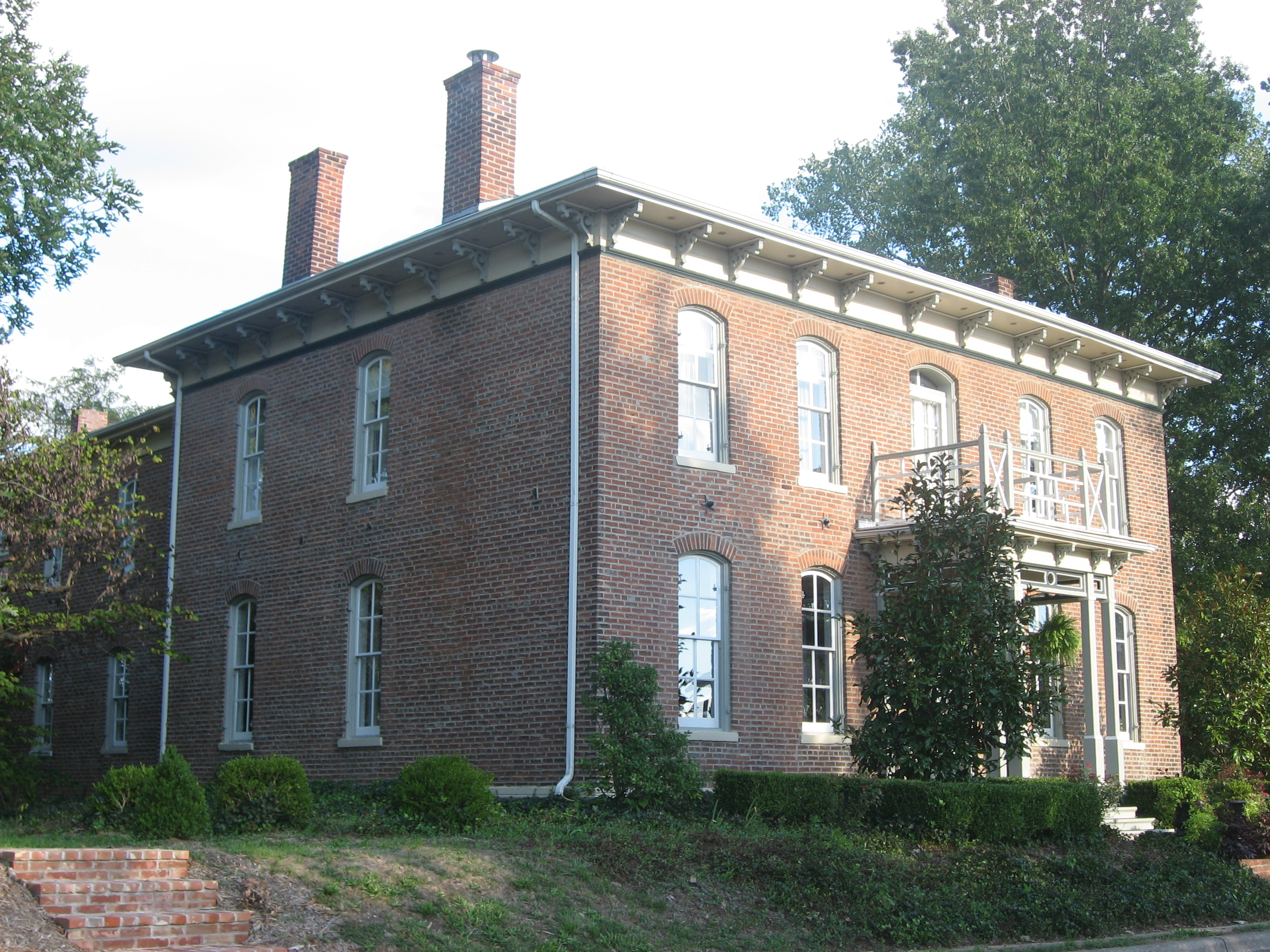 Front and northern side of the Badollet House, located at 310 N. Washington Street in Salem, Illinois, United States. Built in 1854, it is listed on the National Register of Historic Places.